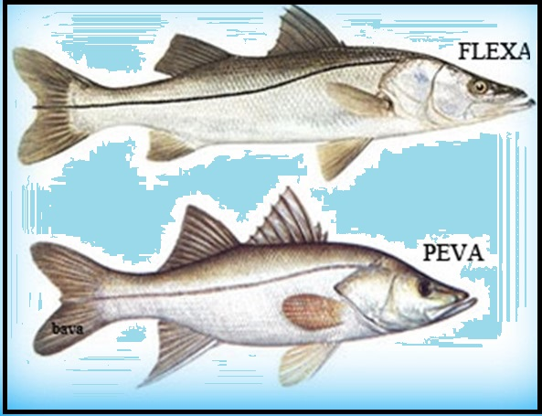 Comparação entre peva e flecha